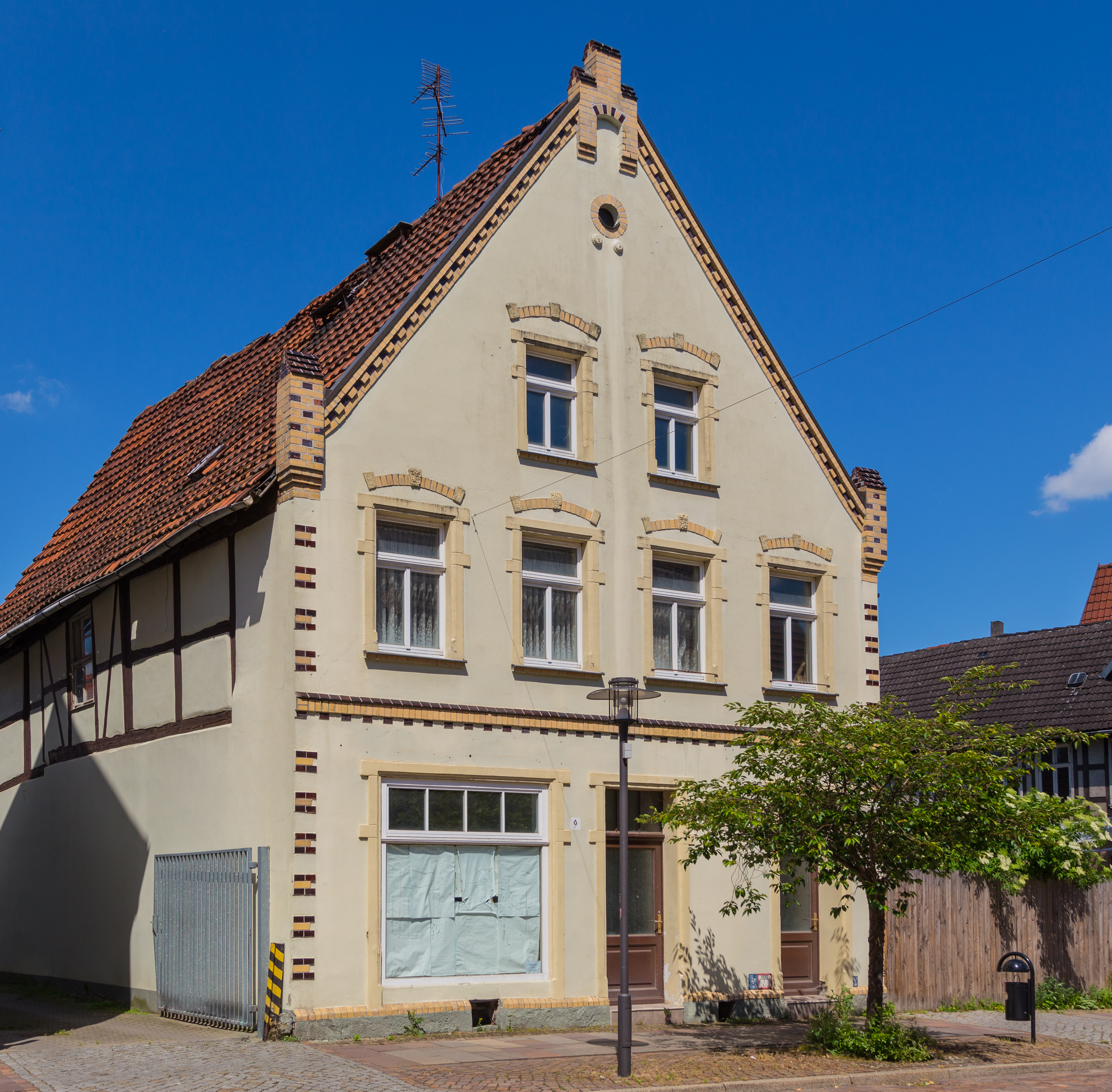 House 9 Rudolf Breitscheid Street (Rudolf-Breitscheid-Straße 9) in Gardelegen, Altmarkkreis Salzwedel, Saxony-Anhalt, Germany. The building is a listed cultural heritage monument.